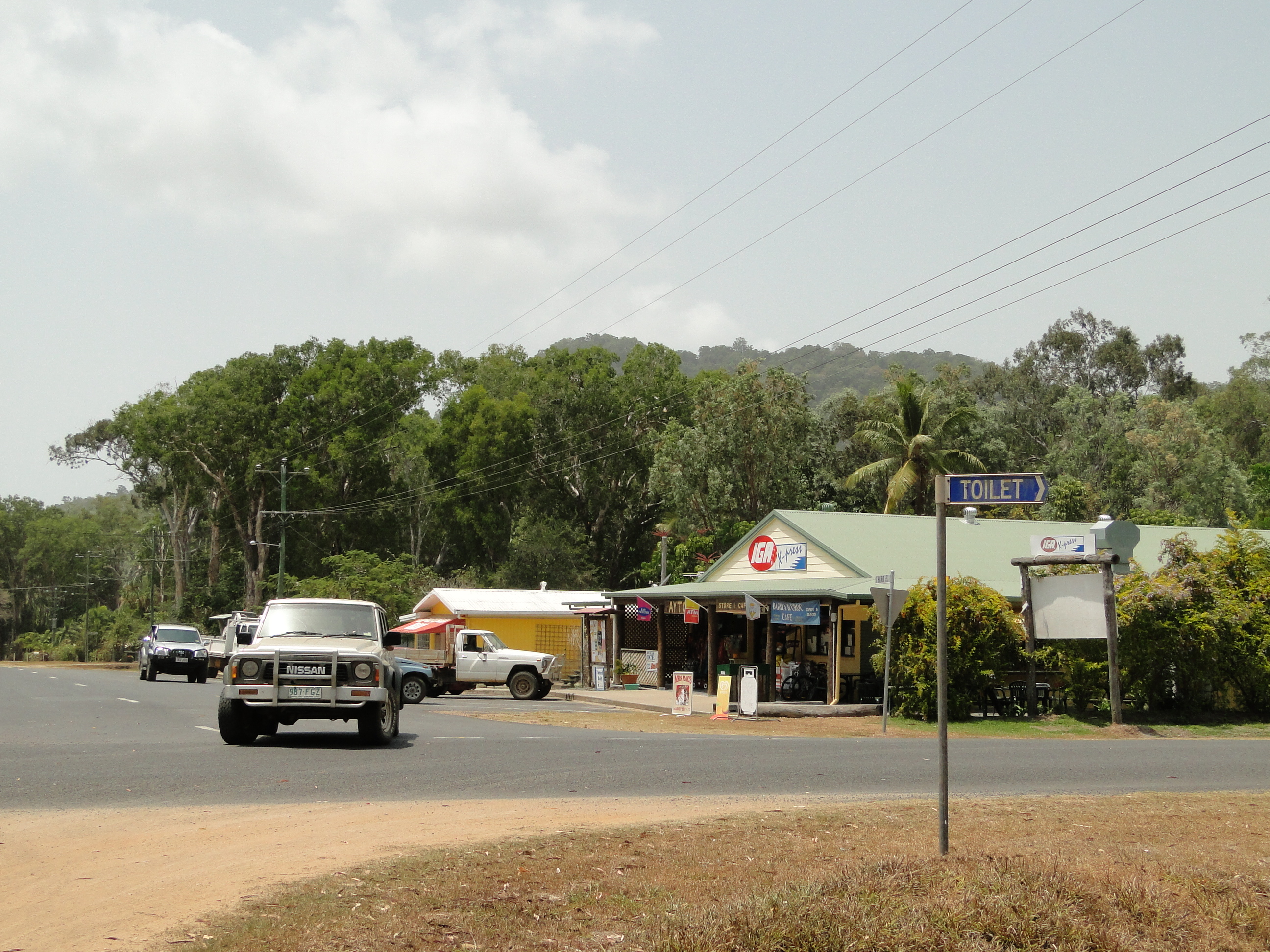 The general store at Ayton, Queensland. Small town near the mouth of the Bloomfield River.